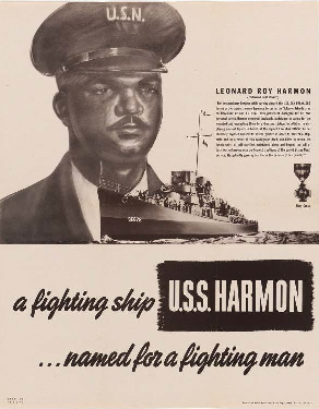 Poster titled "A Fighting Ship, USS Harmon", commemorating the launch of the USS Harmon, the first warship to be named for an African-American. This poster is on display in the National Portrait Gallery in Washington, DC.